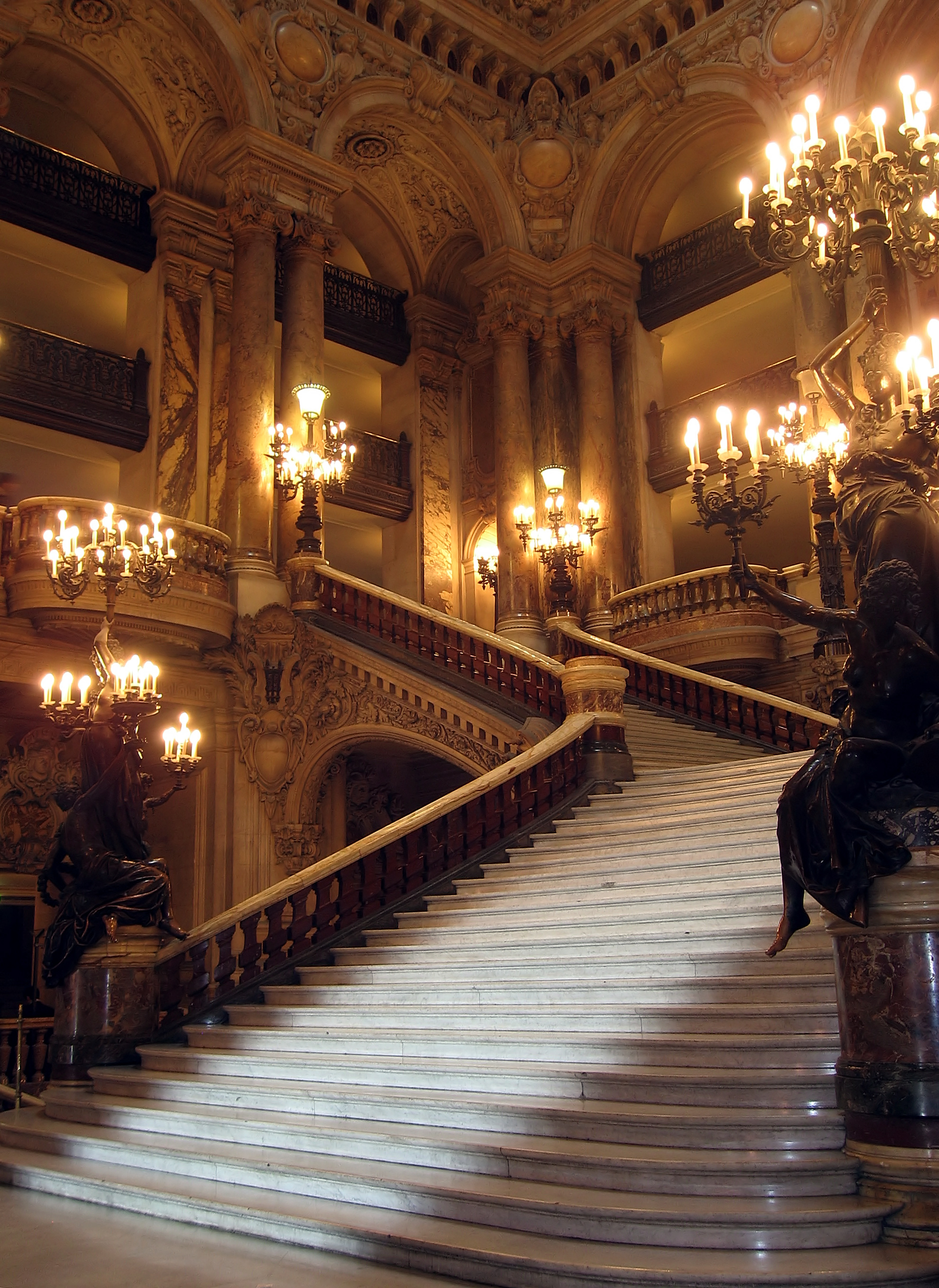 Interior of the Opéra Garnier in the city of Paris/France